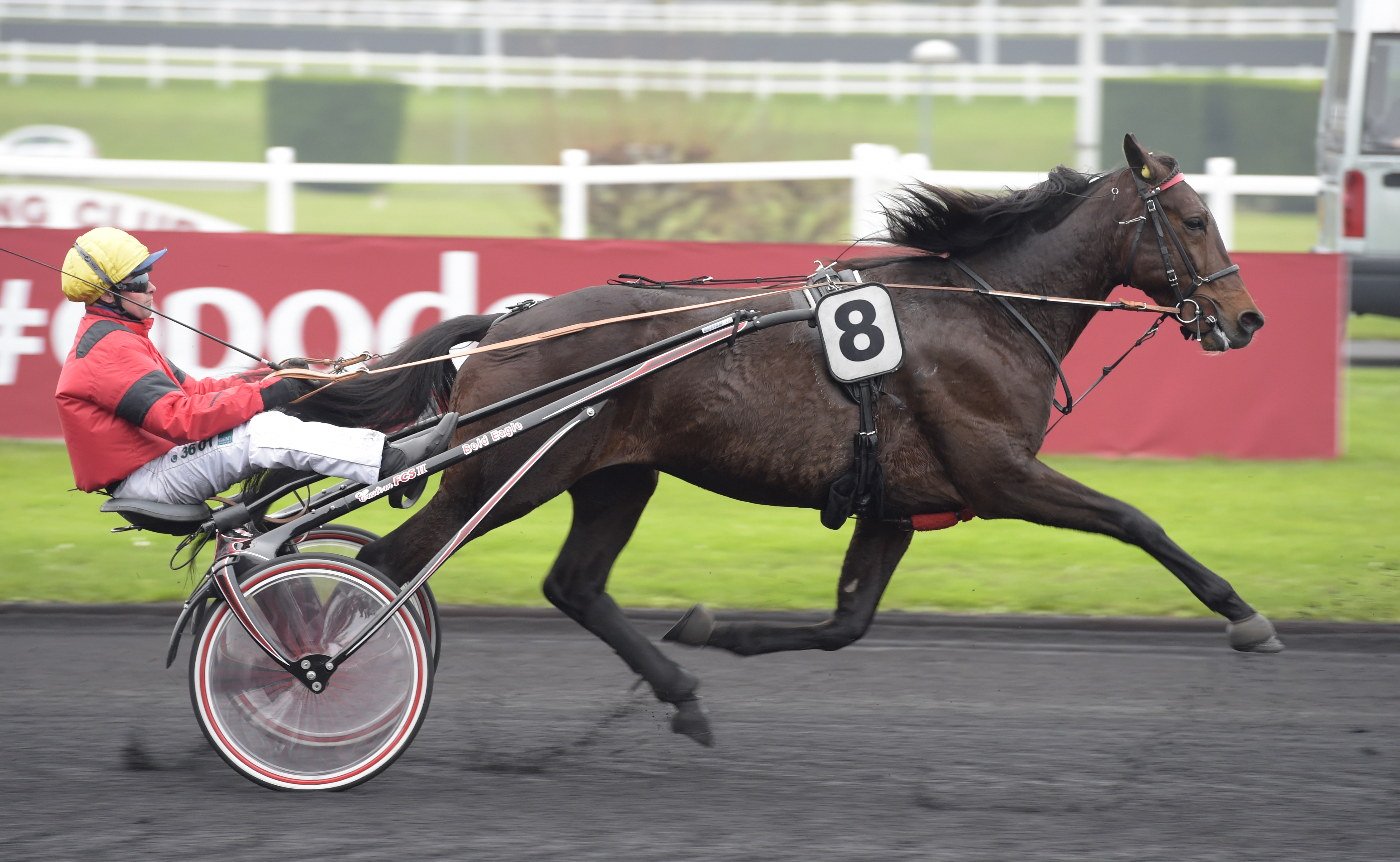 Bold Eagle